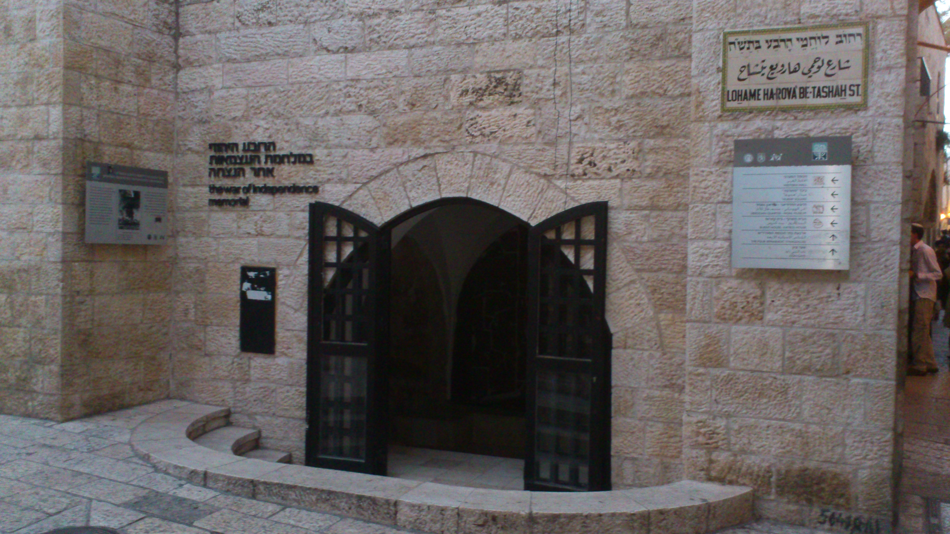 Memorial to the Defenders of the Jewish Quarter